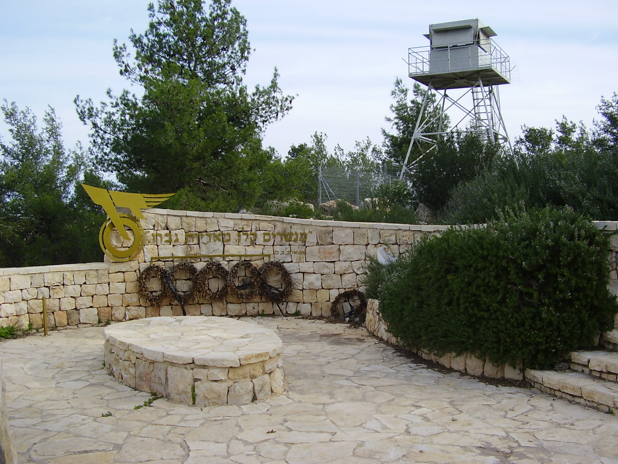 memorial to \"dan\" members who fell in battles